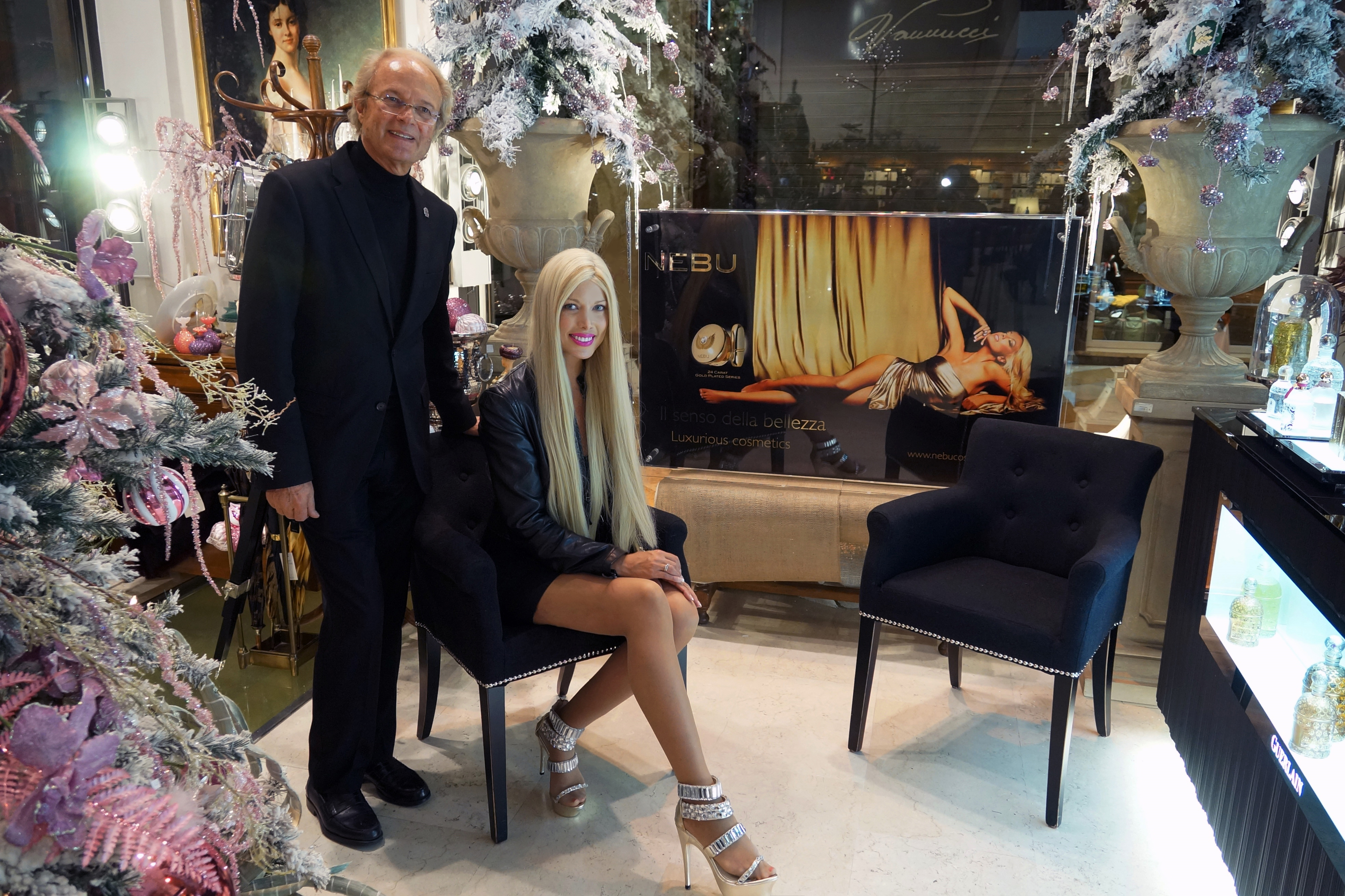 Mr. Mazzolari and Tamara Gee (the face of NEBU Milano) at the NEBU Milano launch event at Mazzolari Perfumerie in Milano November 21, 2013